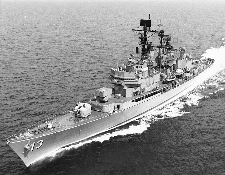 The U.S. Navy guided missile destroyer USS William V. Pratt (DLG-13) underway in the Mediterranean Sea on 27 May 1969.